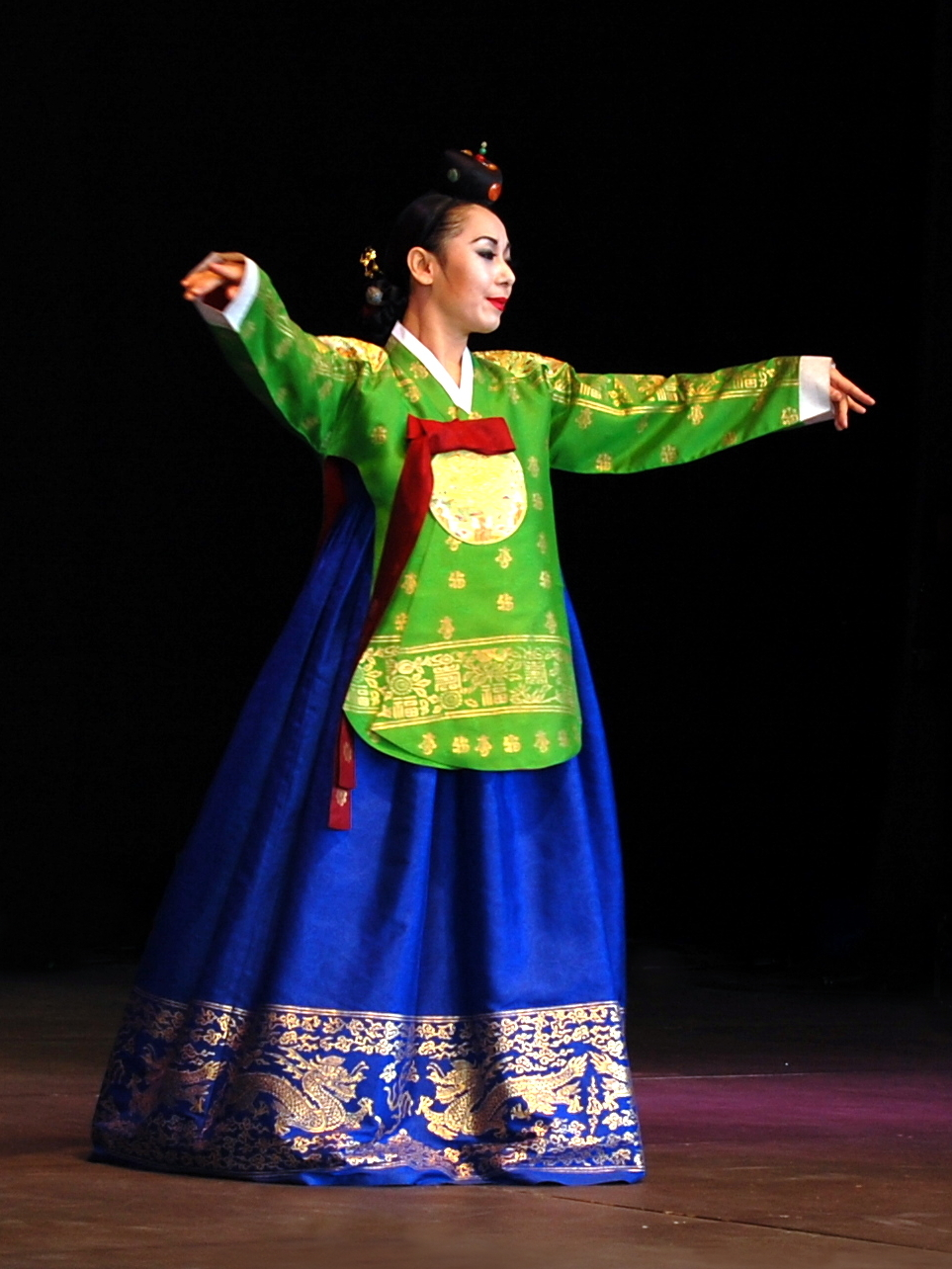 Dangui (the upper garment) and seuran chima (skirt) in Korean royal attire. Bailarina de Corea.